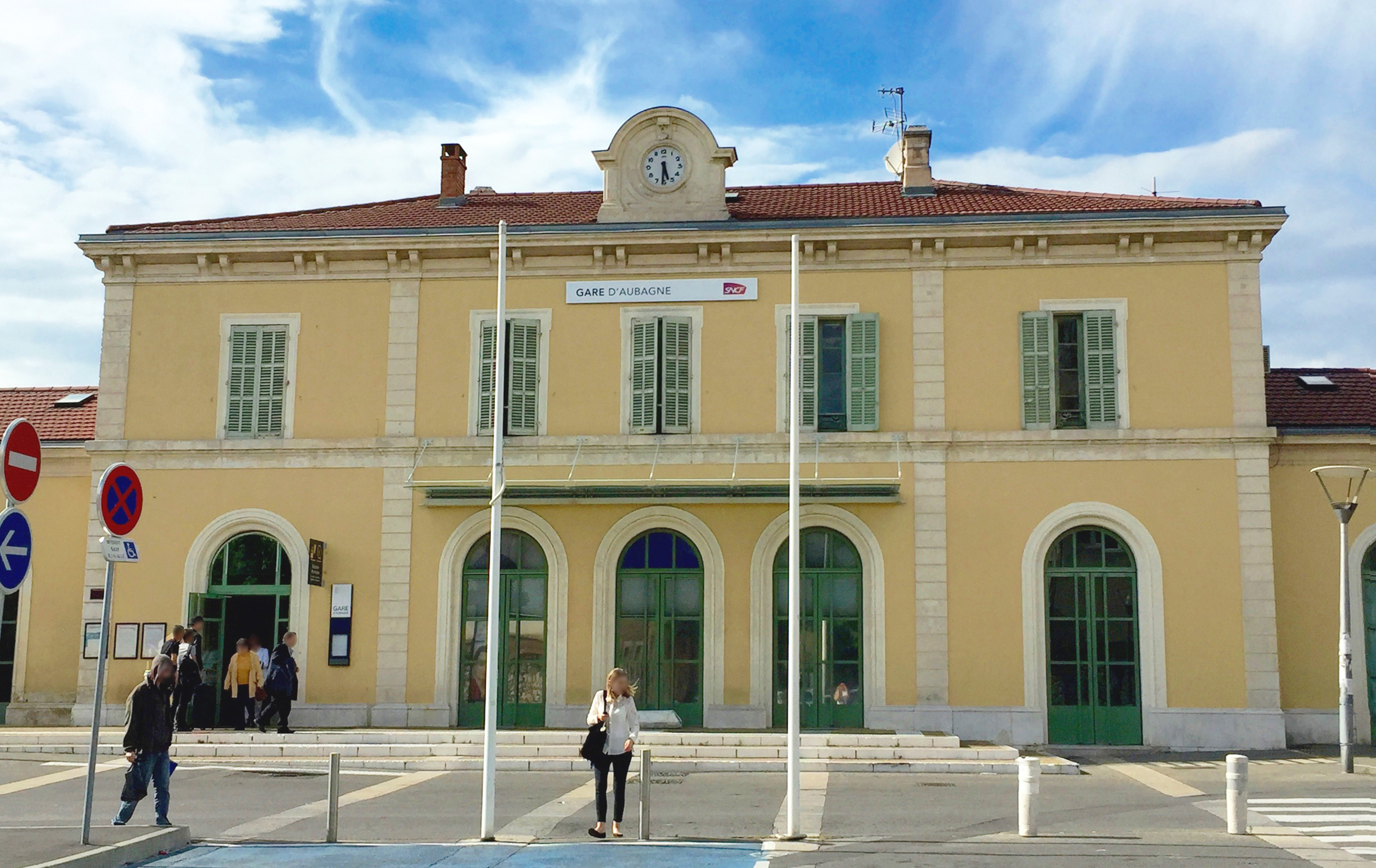 Passenger building of Aubagne train station